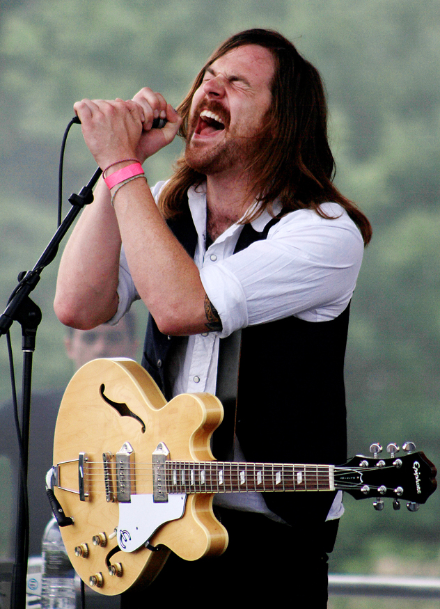 Vocalist and guitarist Adam White of the Canadian rock band The Reason, photographed August 2011 by Mike F. Campbell (User:76wins) at the Ancaster (Ontario, Canada) Fairgrounds.